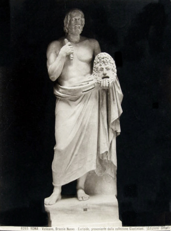 Carlo Brogi (1850-1925) - "Rome - Vatican - Braccio Nuovo Museum - Euripides, from the Giustiniani Collection". Catalogue # 8265.